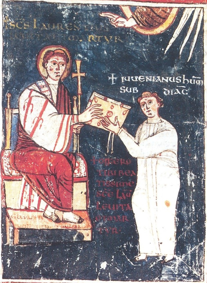 Ordination of a subdeacon